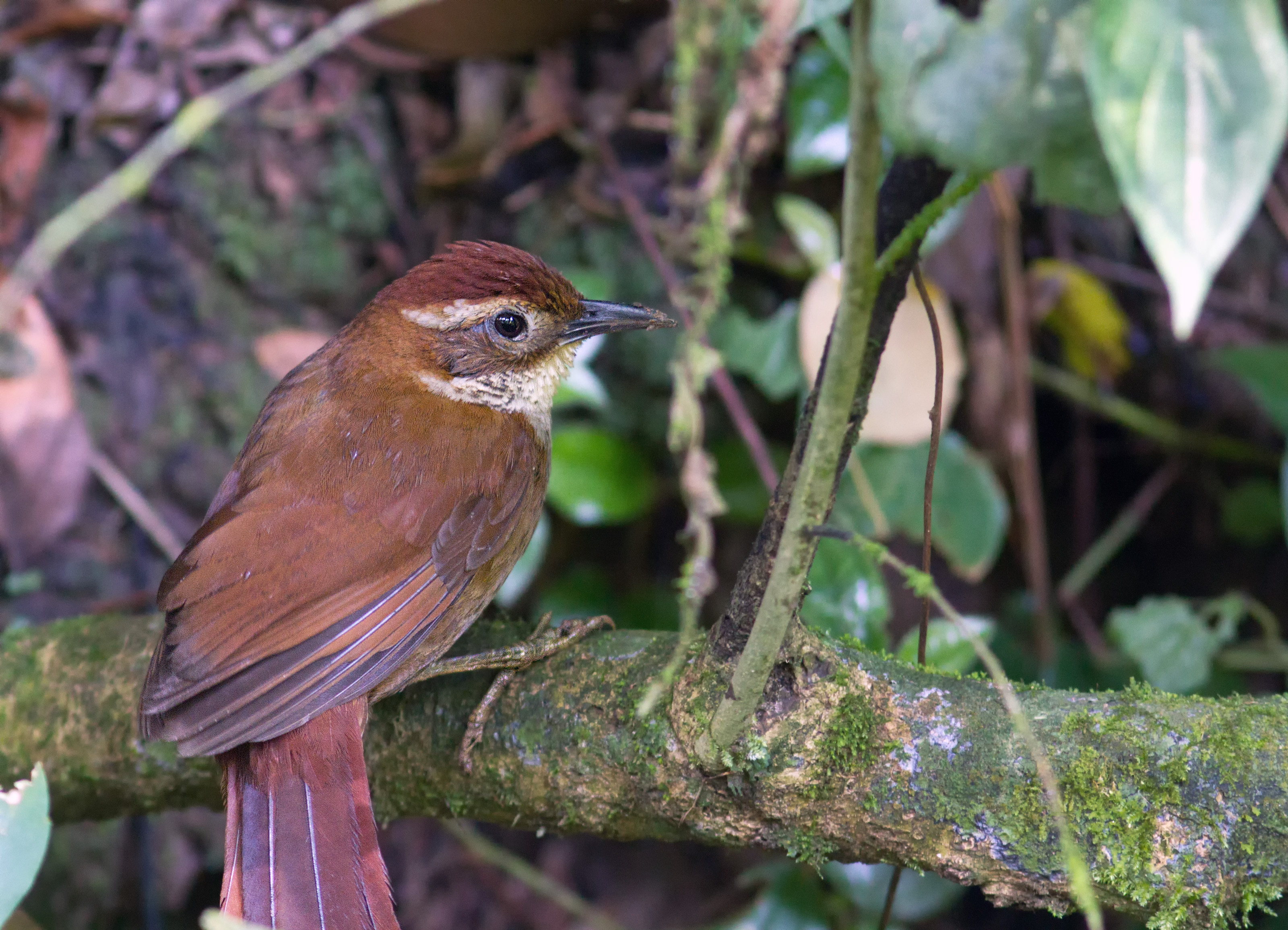 Canebrake Groundcreeper; Curitiba, Paraná, Brazil